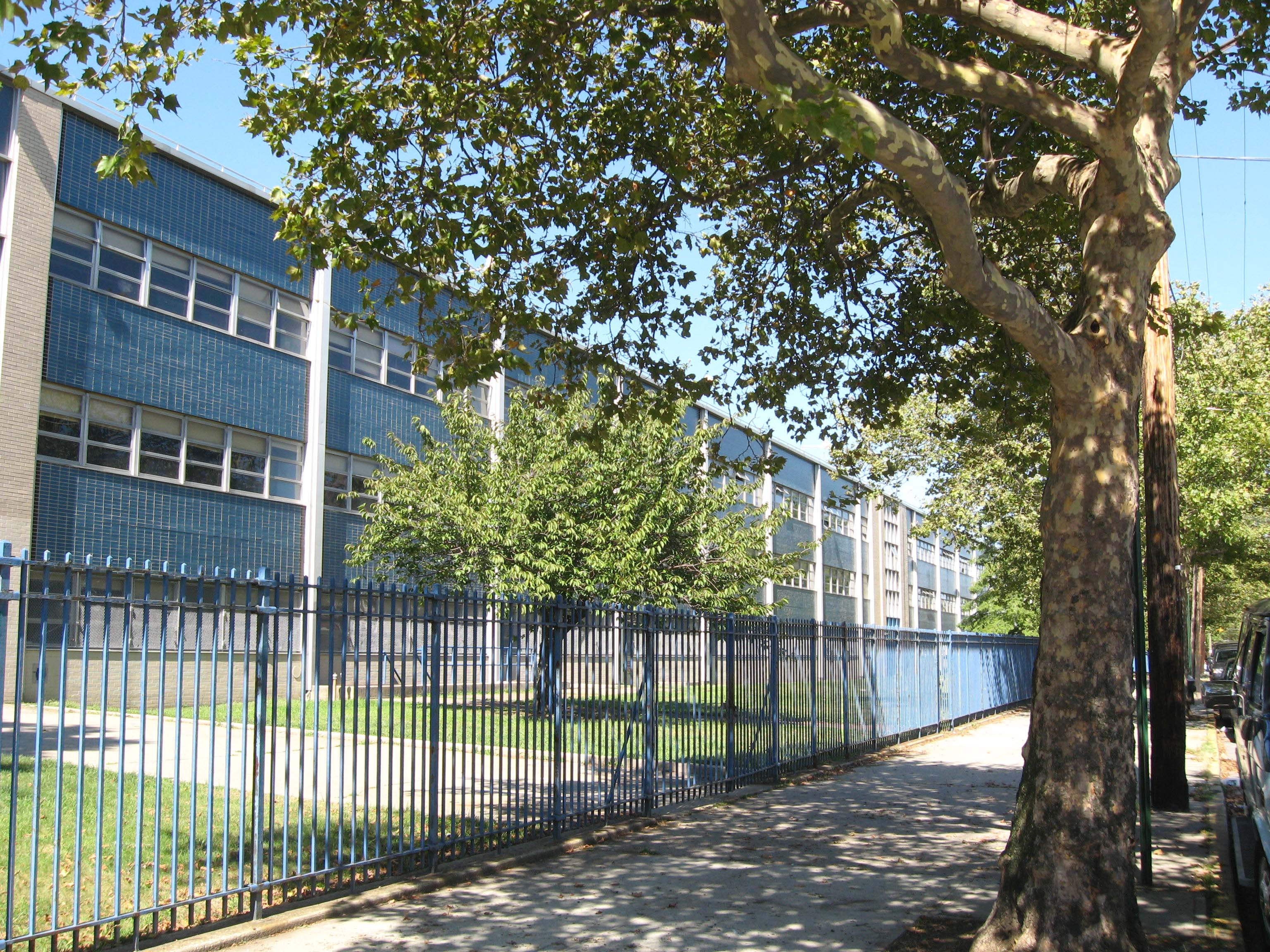 Looking north at Canarsie, Brooklyn High School on a sunny midday